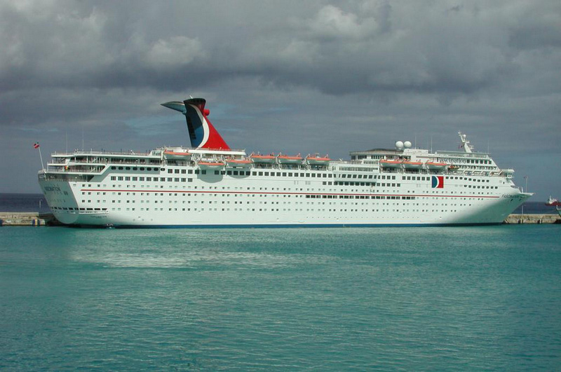 Fascination